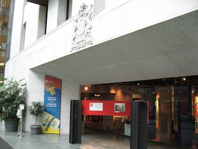 Main entrance to Currency Museum, Bank of Canada, Ottawa